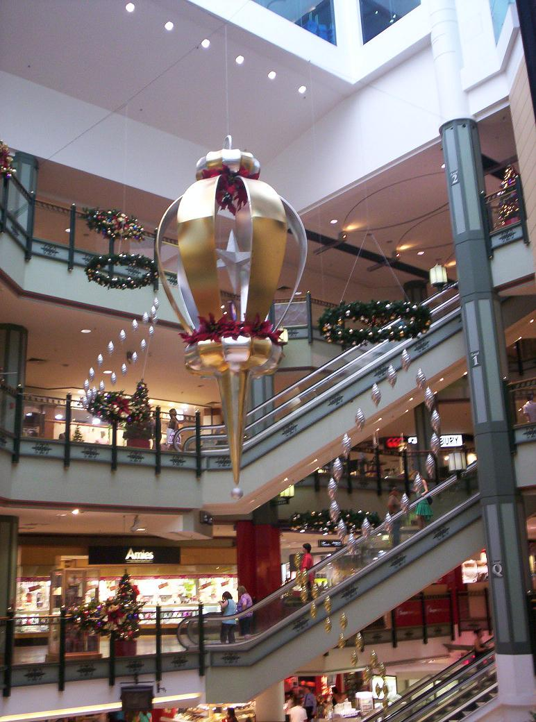 Myer Centre, Brisbane, Queensland, Australia ( decorated for Christmas, 2005 ) ( this photograph was taken by Figaro )